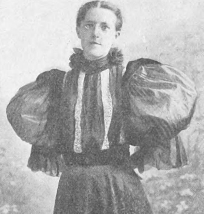 Elise Mercur, 1st female architect of Pittsburgh, PA in 1896